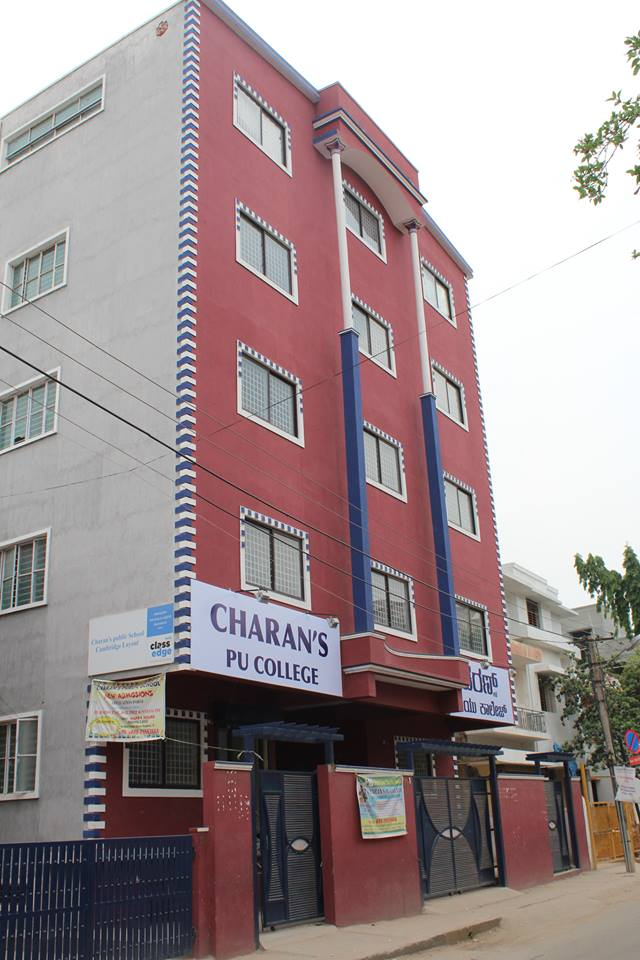 Charan's Pu college main building